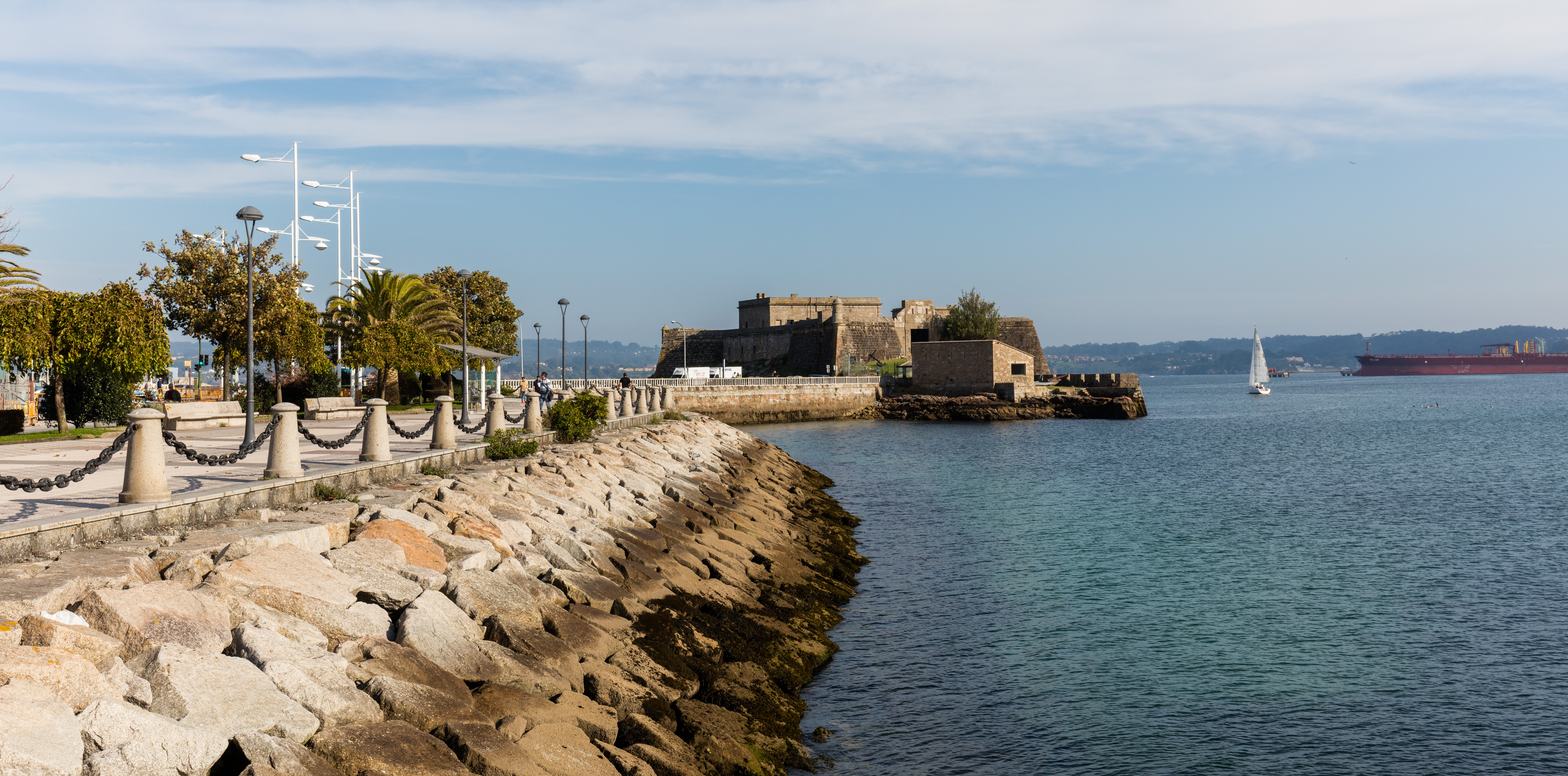 San Antón Castle, La Coruña, Spain